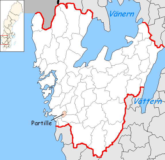 Partille Municipality in Västra Götaland County Designed by me. Mere outlines are a PD source from